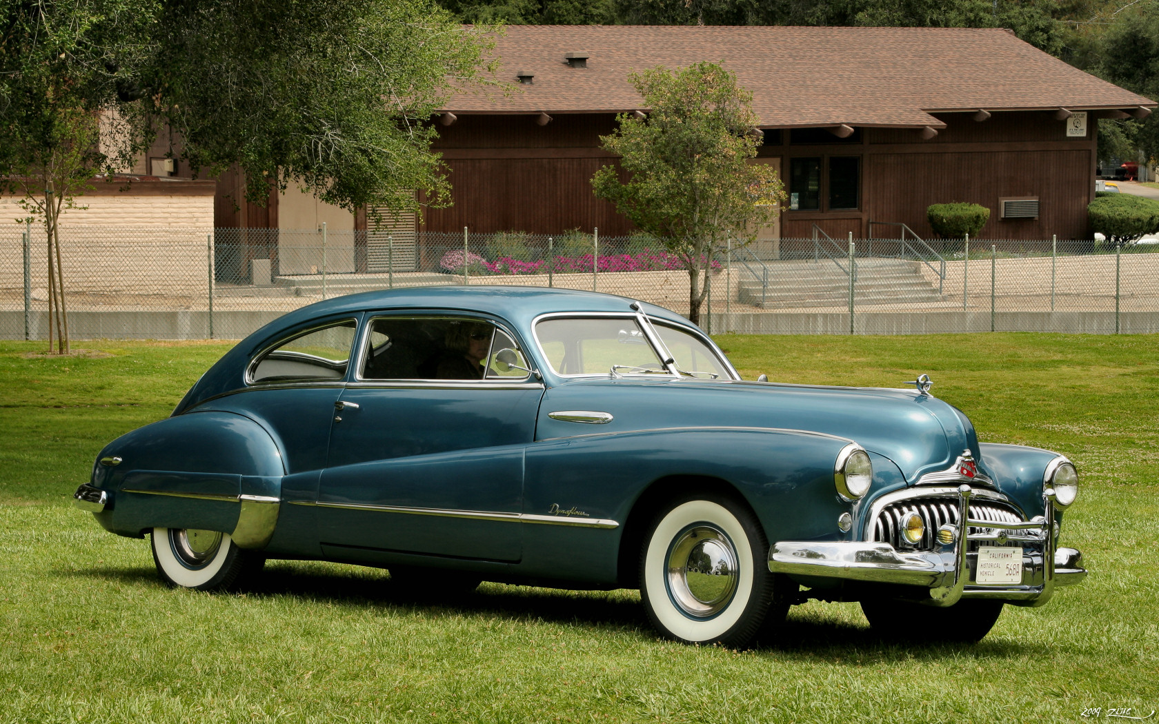 Glendale, CA, Buick Club, May 2, 2009